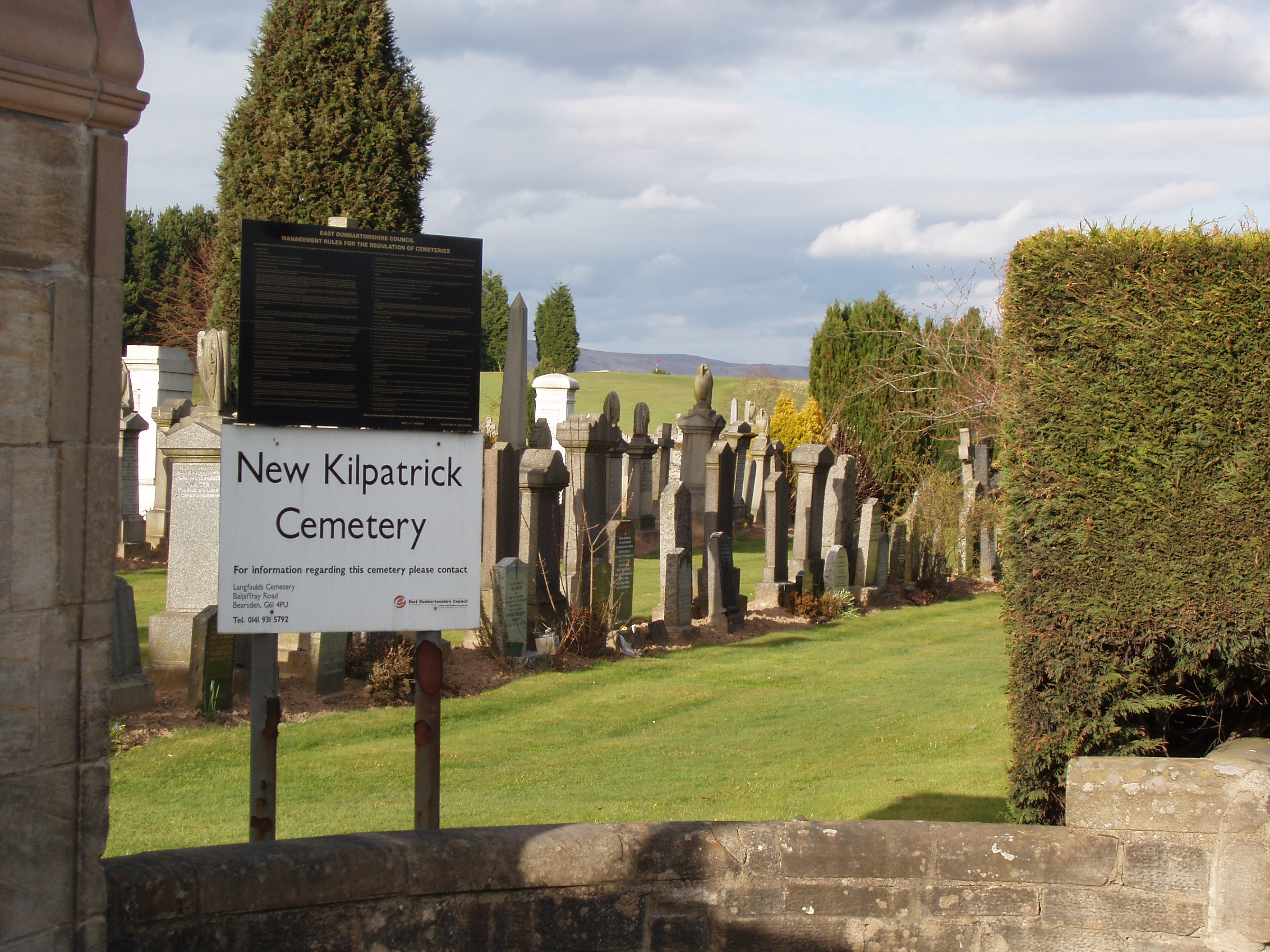 Entry signage at New Kilpatrick Cemetery, Bearsden. In the centre of the picture is a flag indicating a hole on a golf course, situated behind the cemetery. Wikiwayman (talk) 08:26, 20 April 2010 (UTC)